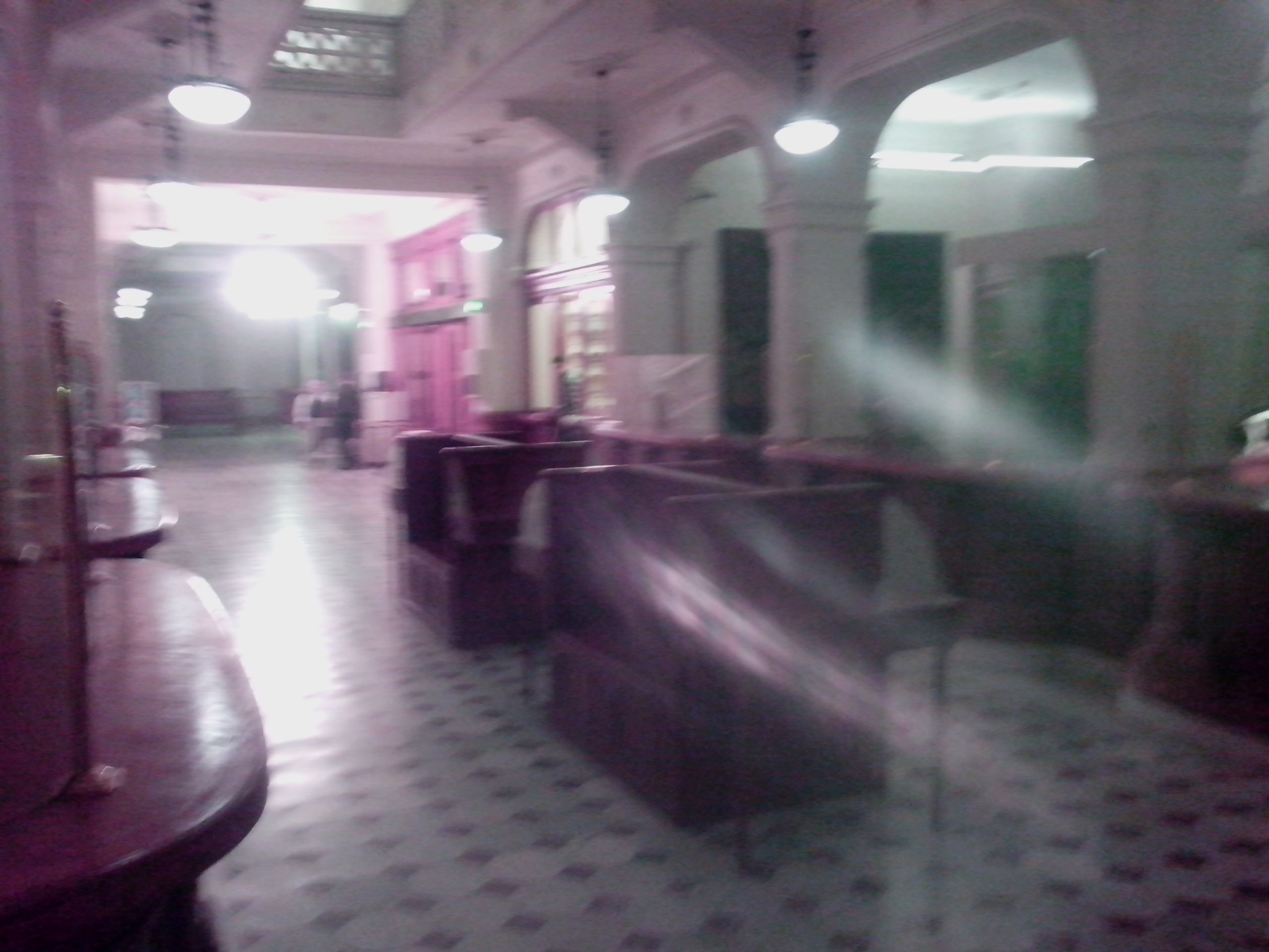 İşbank Eminönü